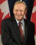 Canadian Prime Minister Jean Chretien.